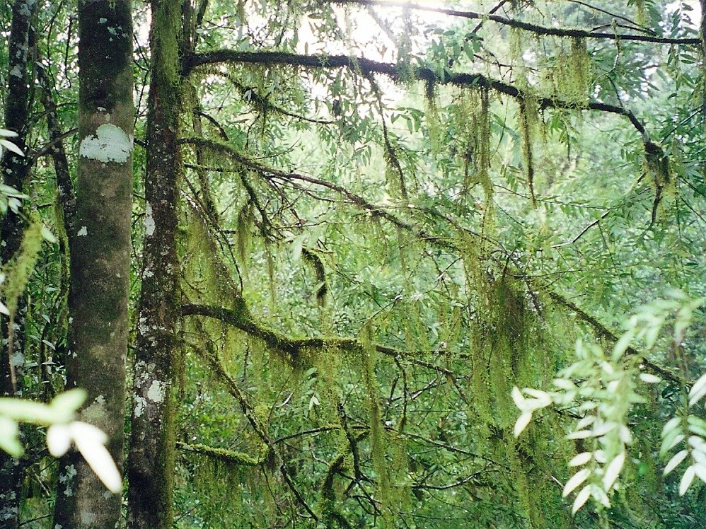 Atherosperma rainforest, Tia River head. Mount Grundy NSW Australia